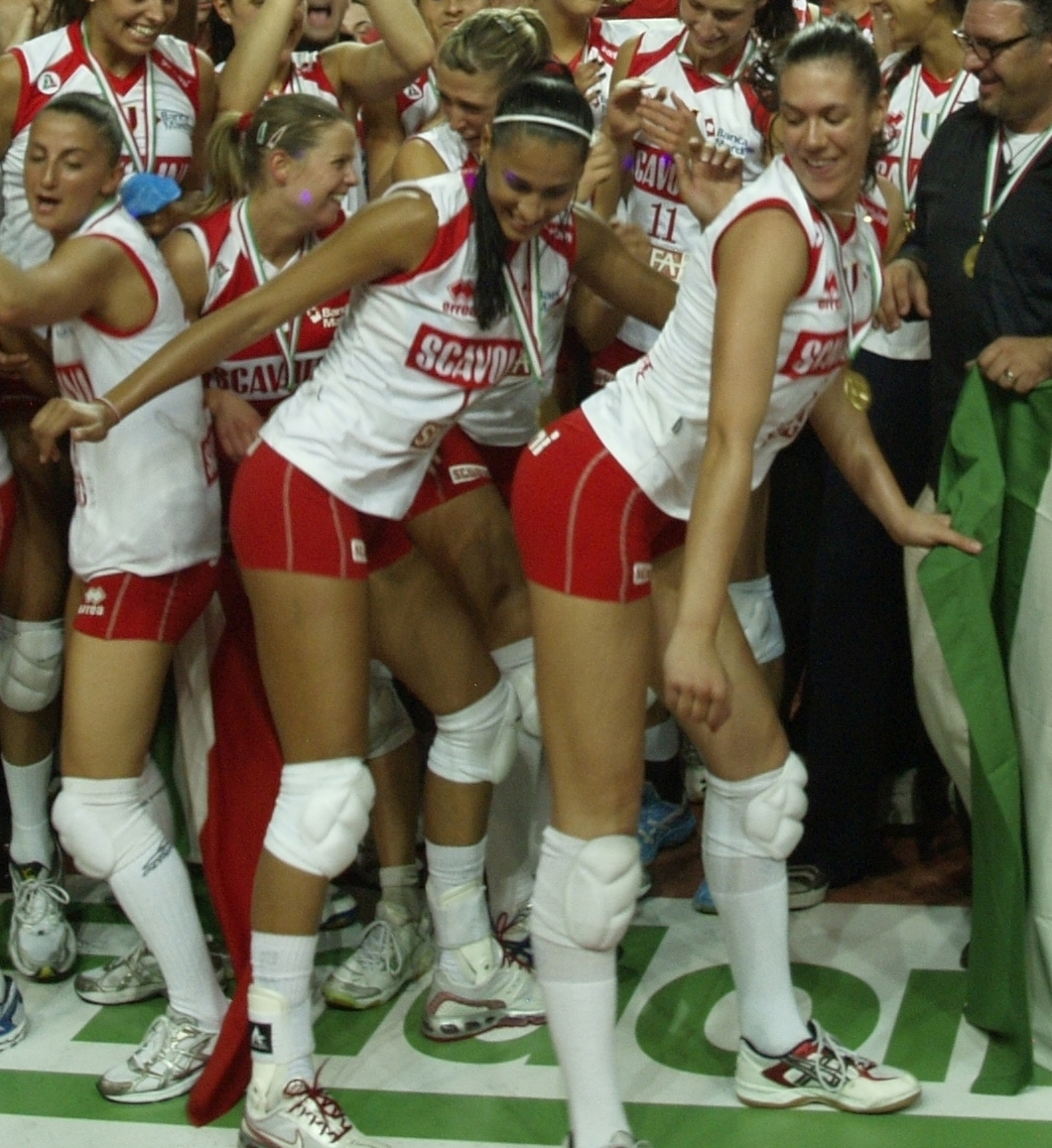 Volleyball players Jaqueline Carvalho (BRA) and Ilaria Garzaro (ITA)